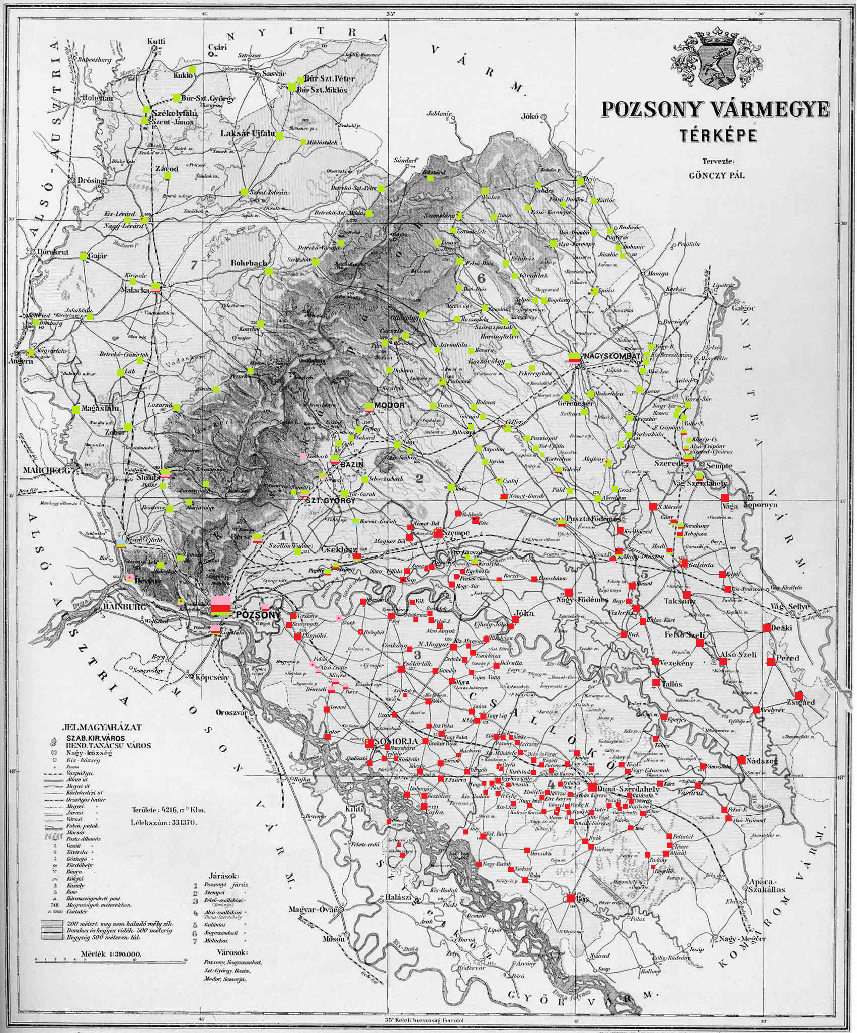 Ethnic map of the county (with data of the 1910 census). Key: red - Hungarians; light green - Slovaks; pink - Germans; light blue - Croatians; black - Roma. Coloured dots in plain rectangles imply the presence of smaller minority populations (generally more than 100 people or 10%). Multicoloured rectangles imply cities and villages with multi-ethnic populations with the order of the stripes following the ethnic composition of the settlement.